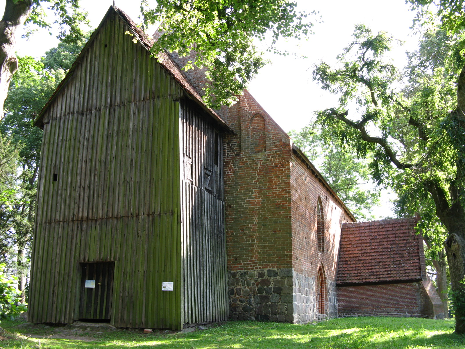 Church in Boitin, disctrict Güstrow, Mecklenburg-Vorpommern, Germany